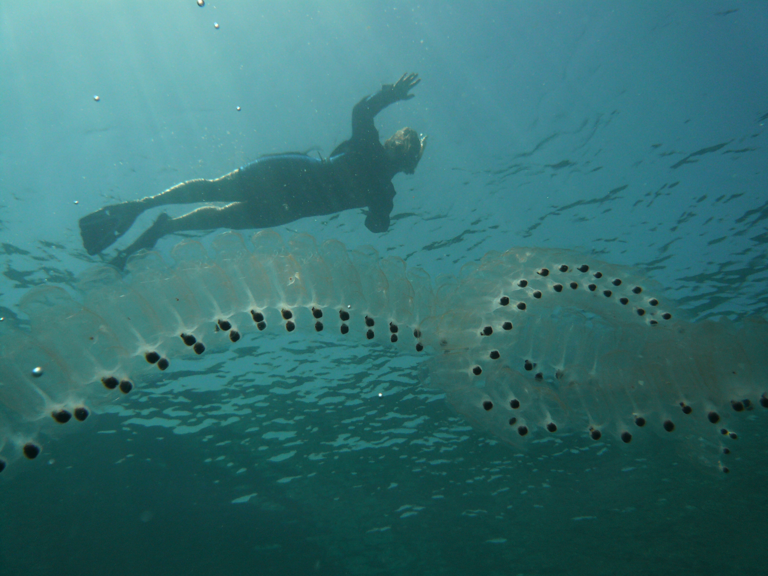 It is a colony of individuals of an independent species called salp, many times more developed than jellyfish and more closely related to vertebrates.